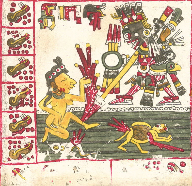 The bottom left quarter of page 53 of the Codex Borgia, depicting a deity piercing a woman with a spear or arrow.